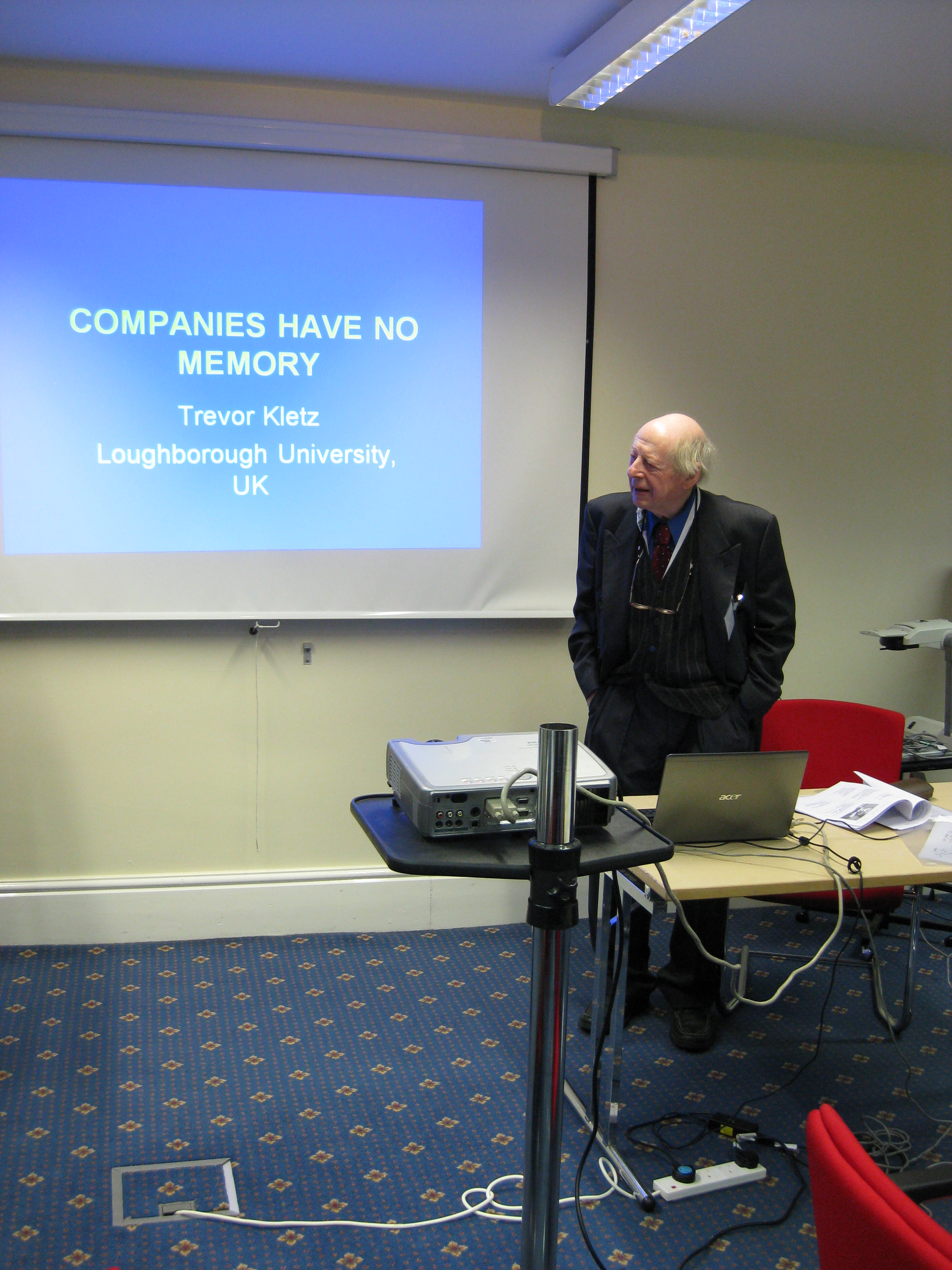 Trevor Kletz, speaking at a workshop on teaching safety in chemical engineering in Manchester, 18 January 2010.